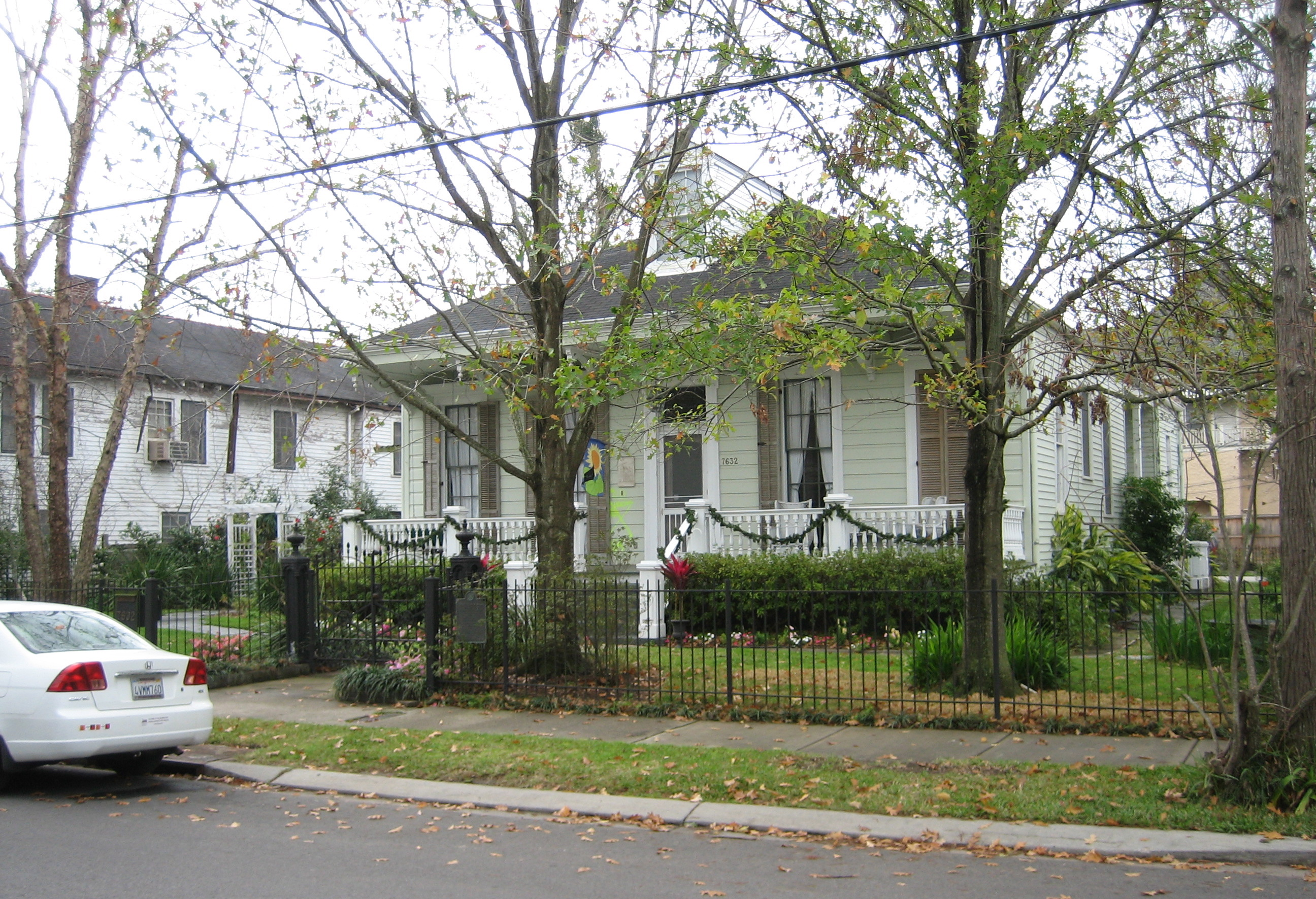 New Orleans: Former house of writer John Kennedy Toole, author of "A Confederacy of Dunces".